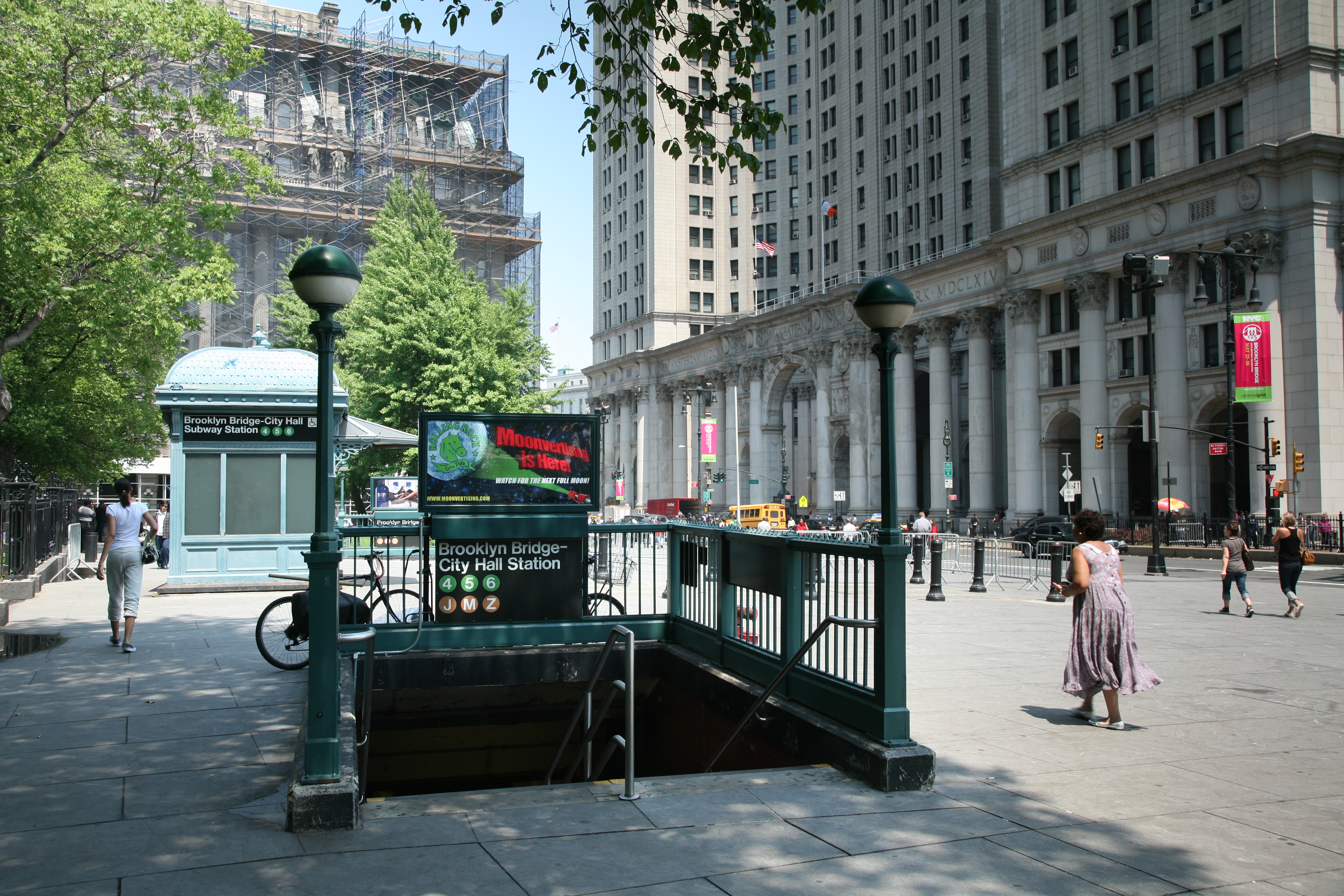 Brooklyn Bridge Station, New York City